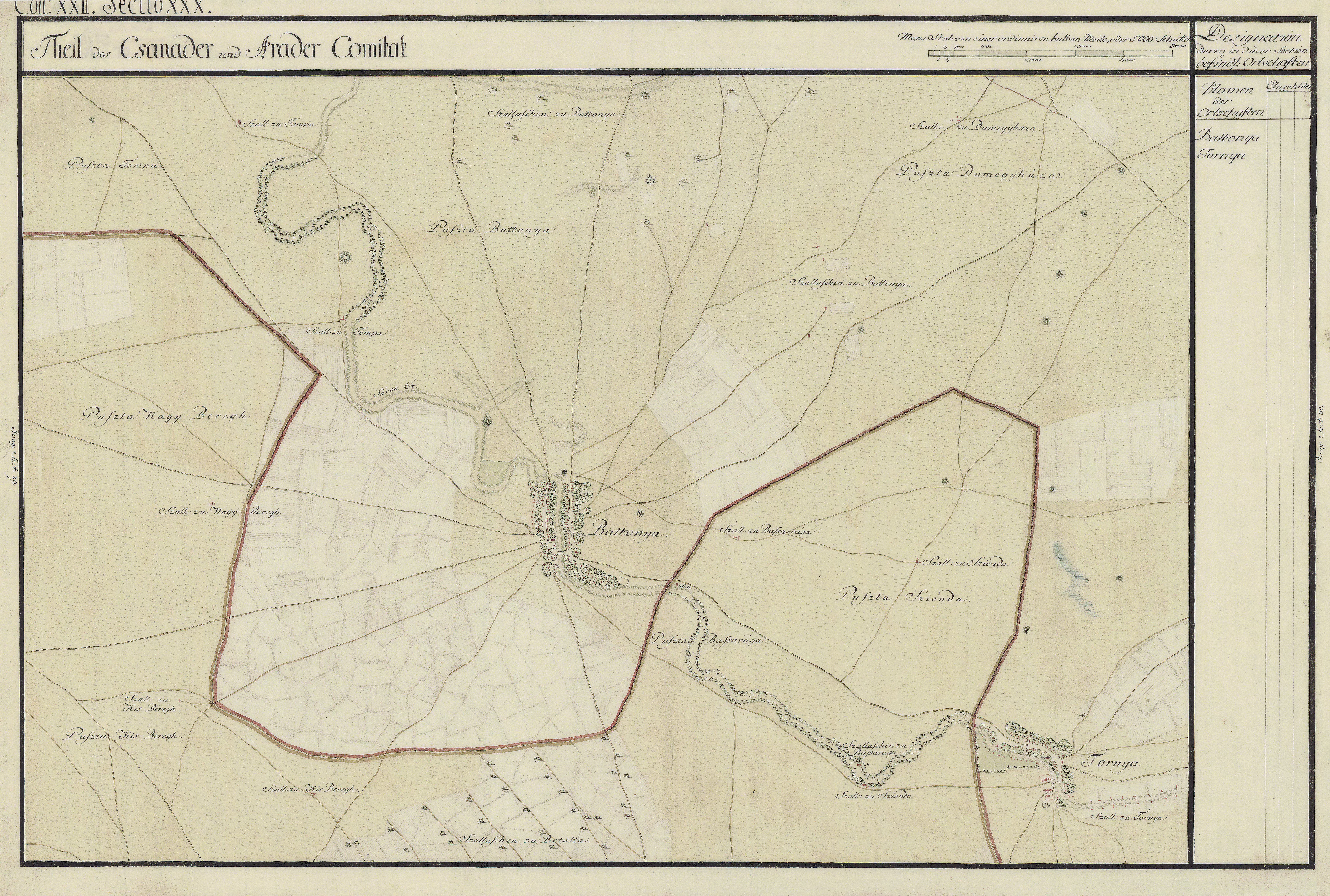 Arad County, 1782-85. Josephinische Landesaufnahme pg.22-30